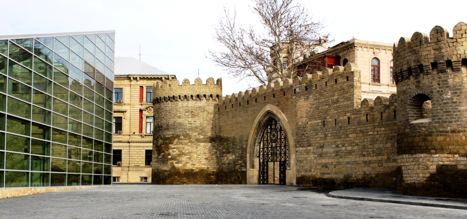 Old city baku azerbaijan